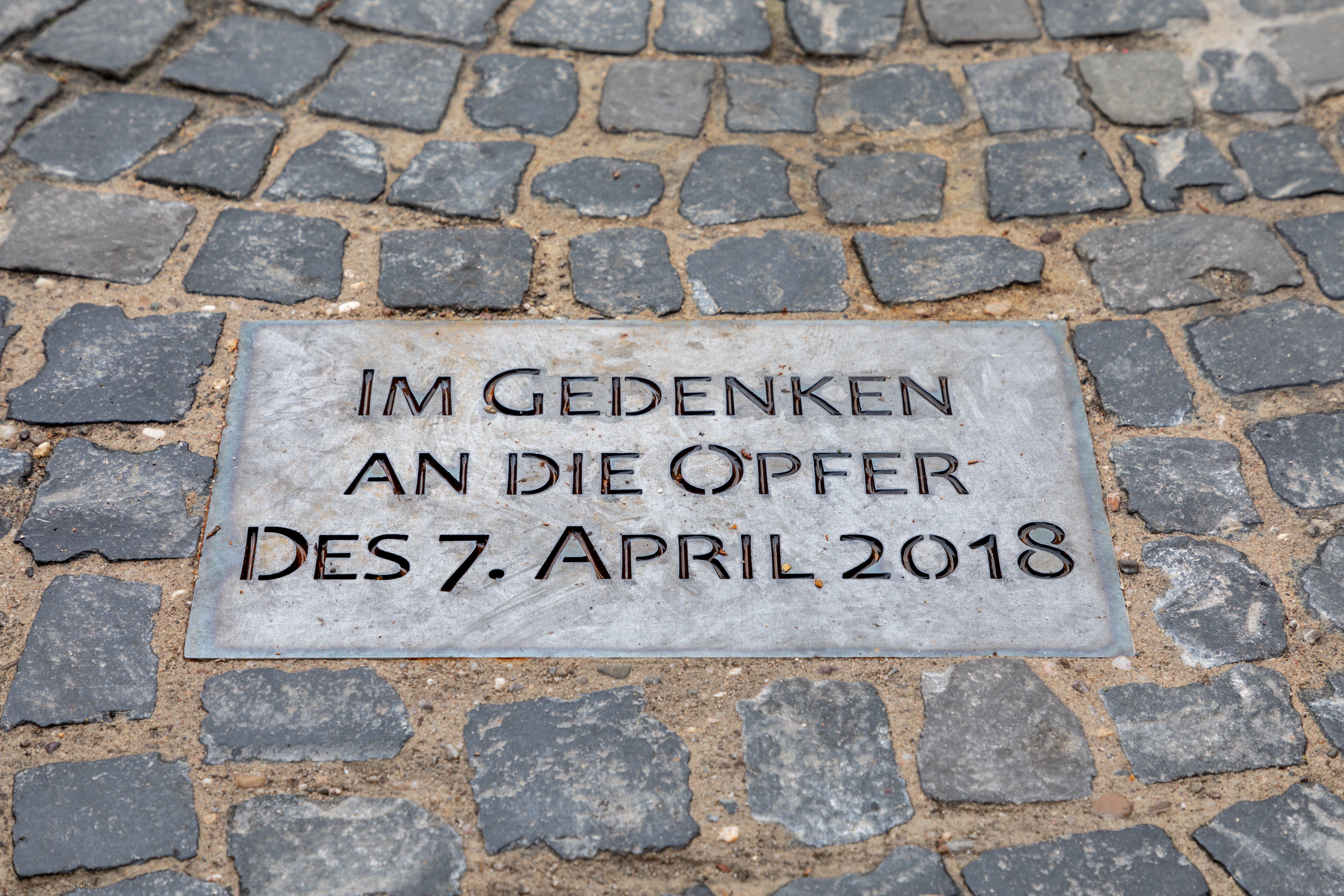 Plaque for the victims of the attack of 7 April 2018 at the square at the Kiepenkerl (Spiekerhof) in Münster, North Rhine-Westphalia, Germany